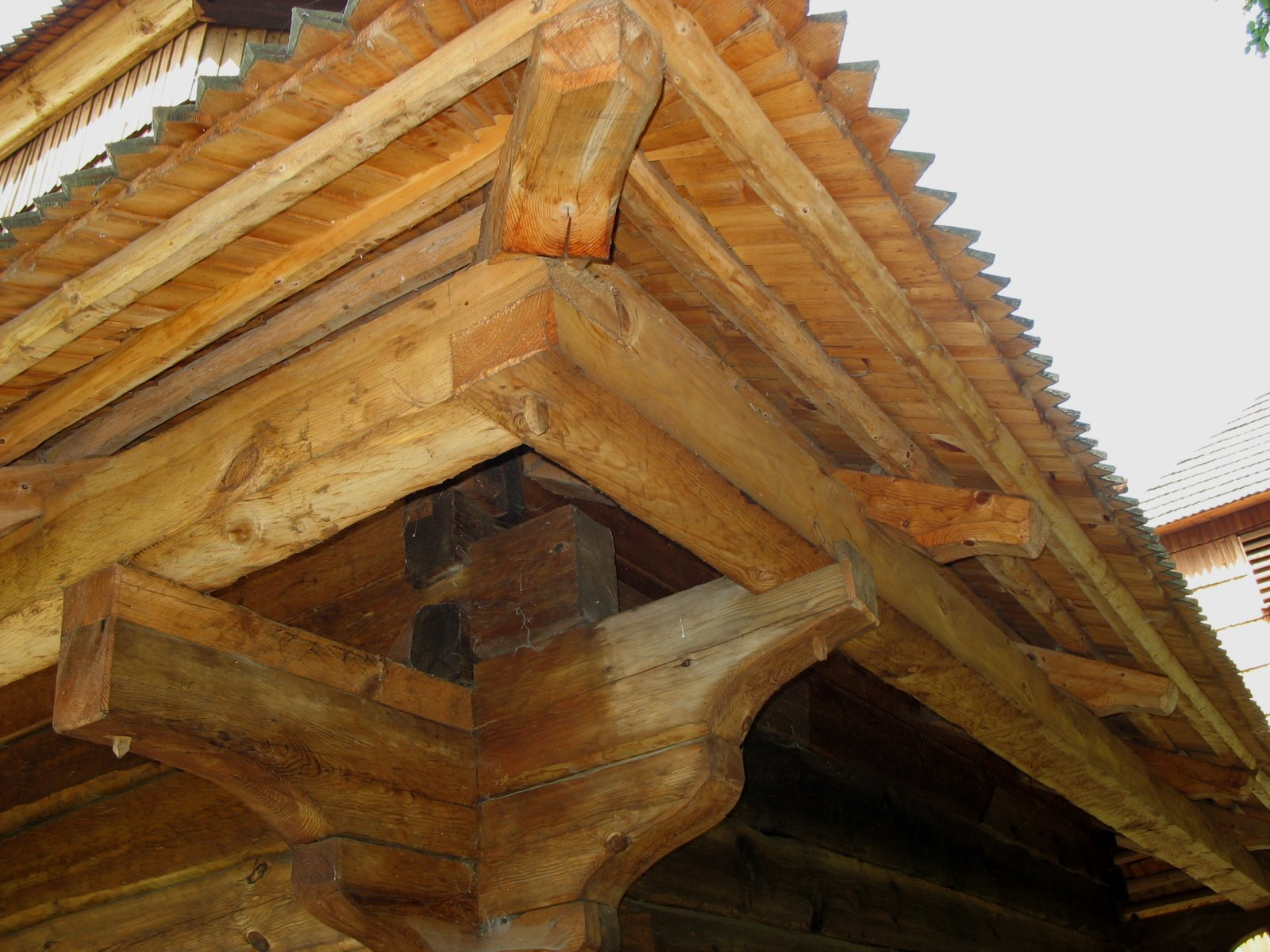 Gorajec (Poland), Greek Catholic church